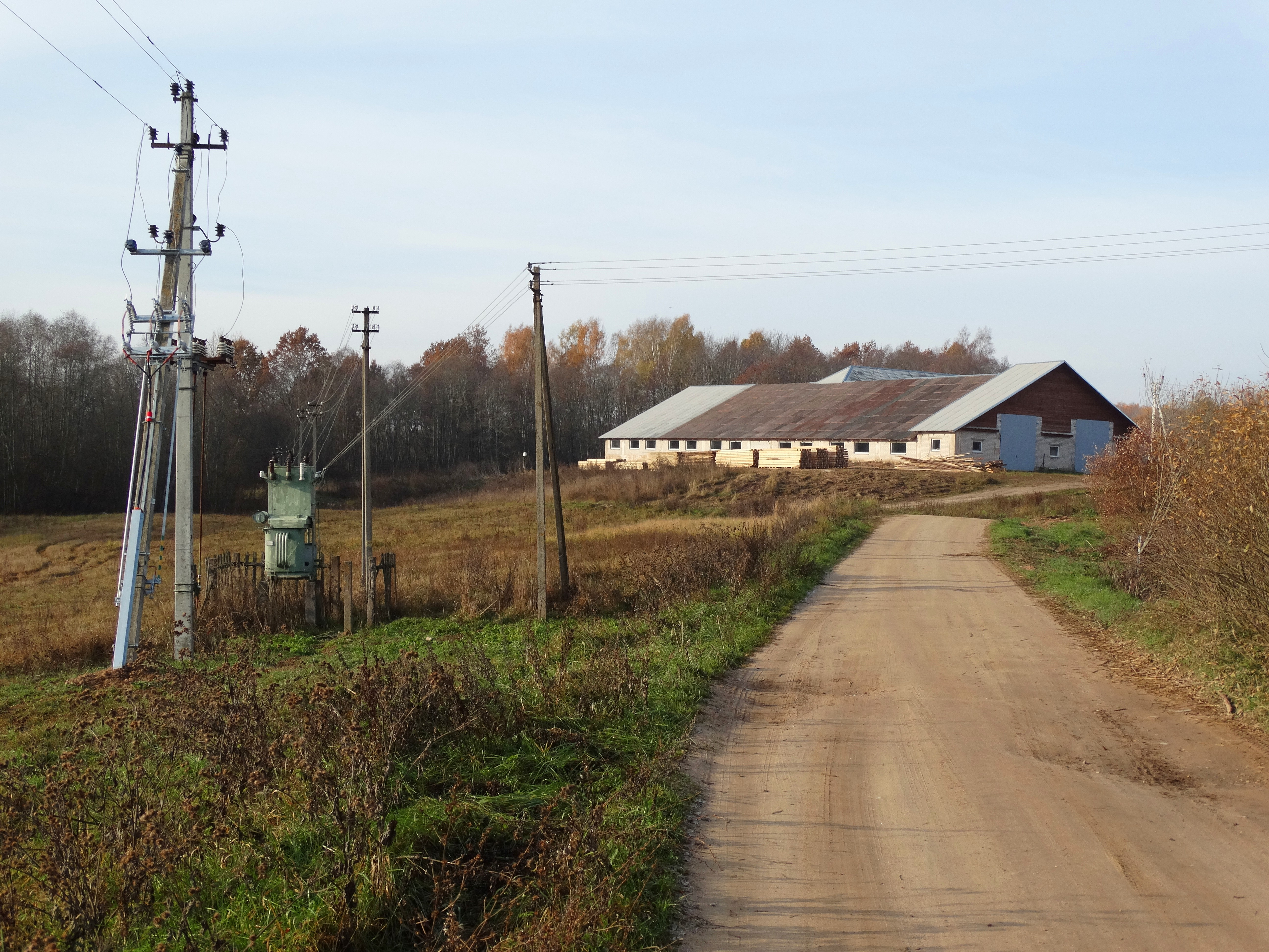 Taukeliai, Utena district, Lithuania